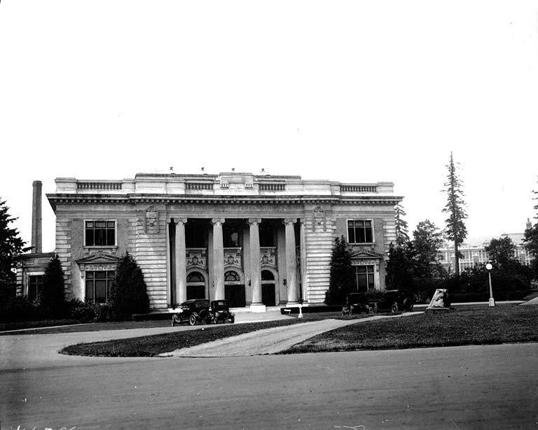 From John Cobb field notebook: Old Washington State Building, now library, Univ. of Wash. 1922 Built for the Alaska Yukon Pacific Exposition as the Washington State Building in 1909 Subjects (LCTGM): Libraries--Washington (State)--Seattle; Automobiles--Washington (State)--Seattle Subjects (LCSH): Academic libraries--Washington (State)--Seattle; Library buildings--Washington (State)--Seattle; University of Washington. Libraries